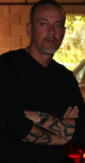 David Mancini on the set of the E! Entertainment Special "Psychic Hollywood: The Search For Truth"